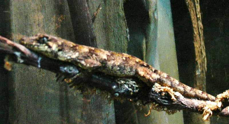 forest gecko, Hoplodactylus granulatus